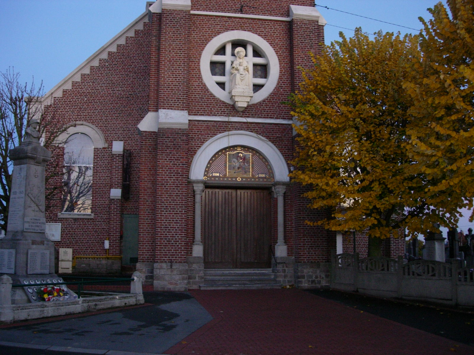 Saint-Martin Church